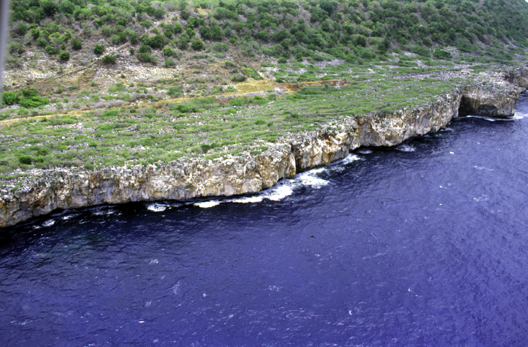 Aerial photo of the southwest coast of Navassa Island in the Caribbean Sea